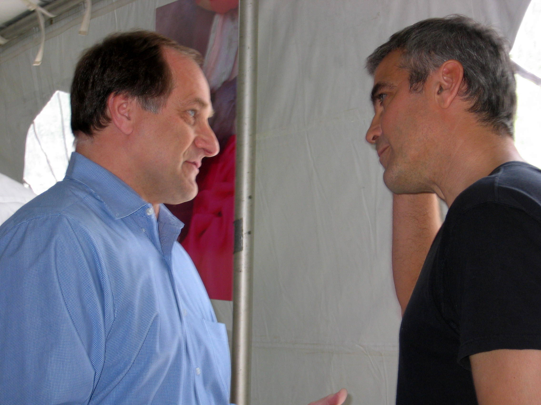 US Rep. Mike Capuano meets with George Clooney